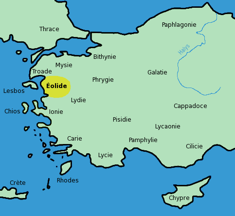 Map of Eolia in French. Adaptated from Image:Turkey ancient region map Aeolis.jpg.